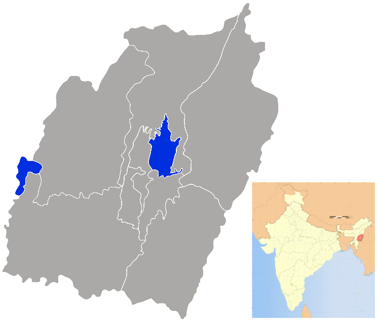 Imphal East district in Manipur